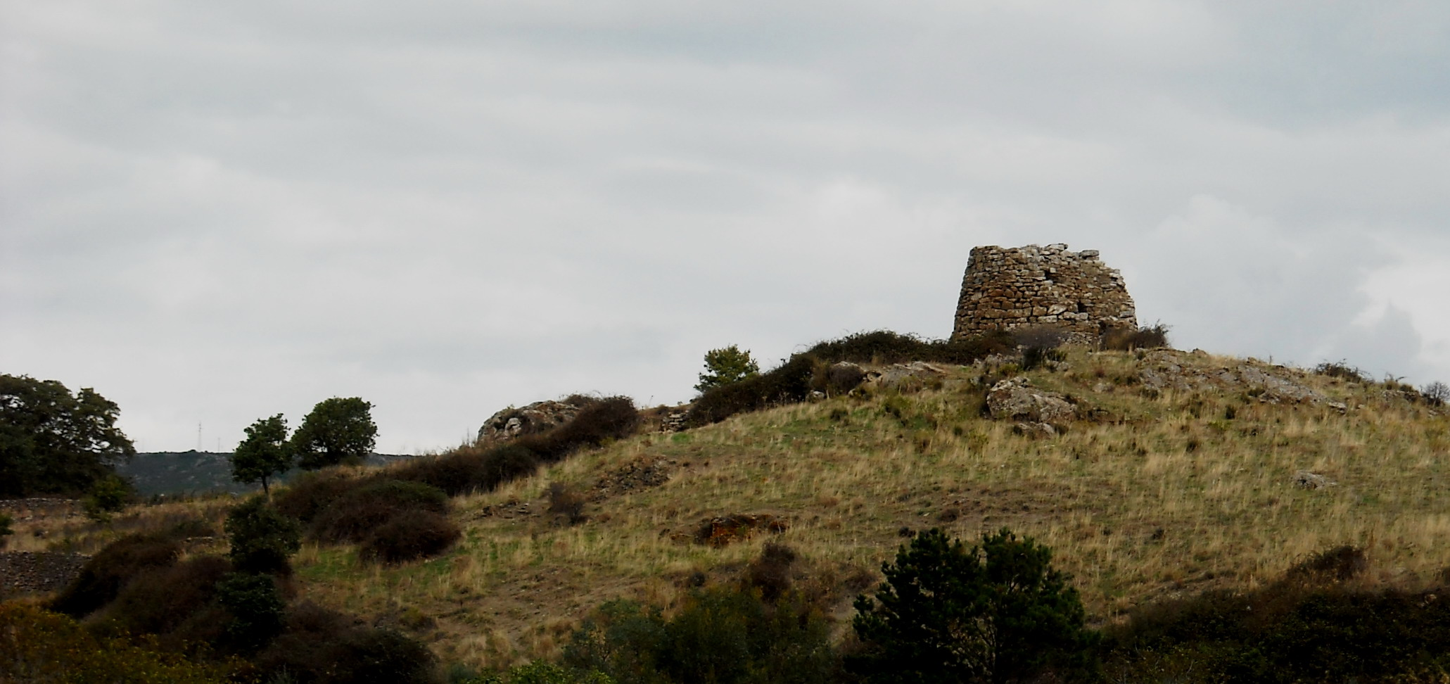 Nuraghe Pauli in Seulo , Sardinia-Italy